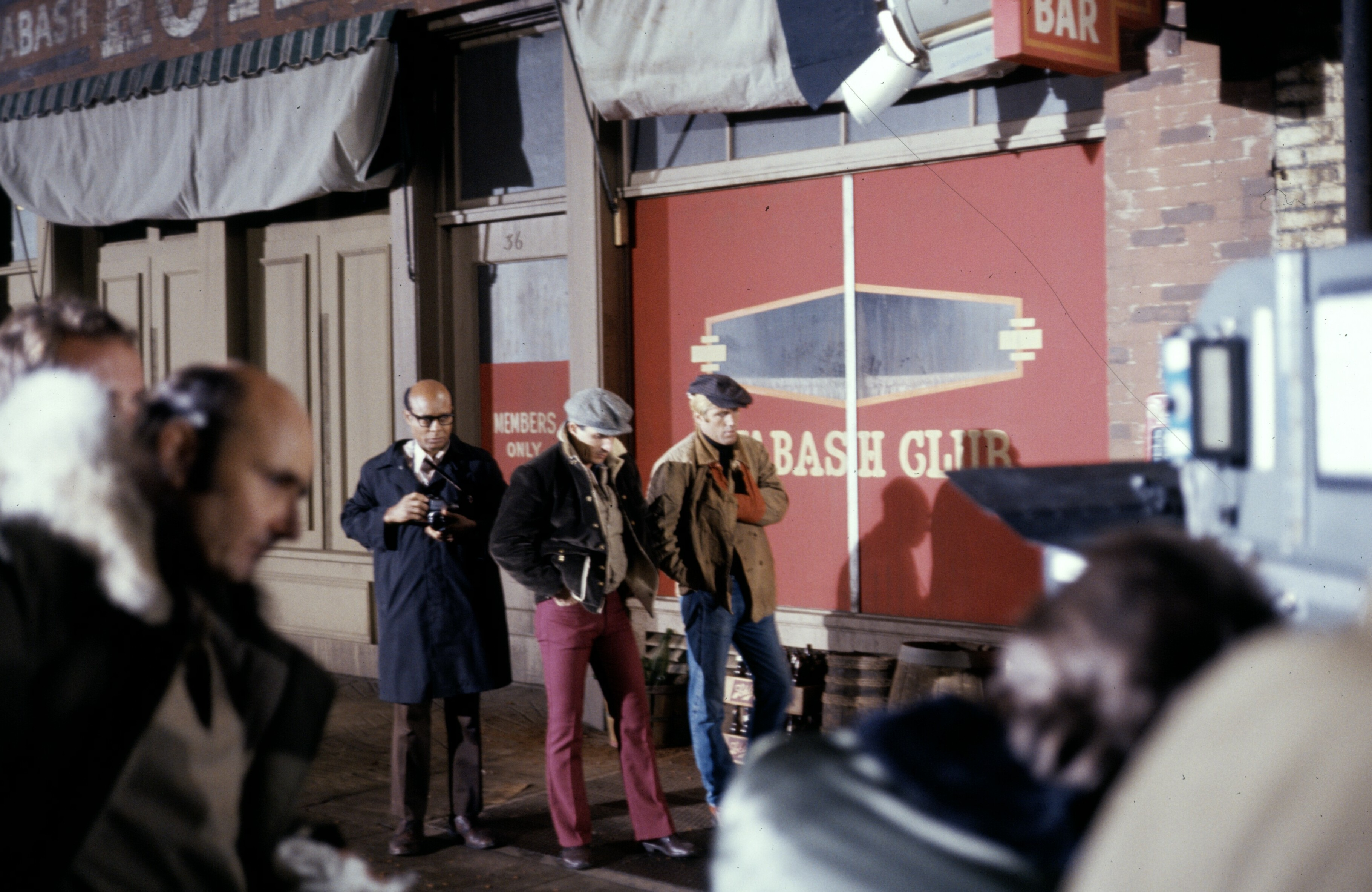 The Sting being filmed on location in 35 W Union St., Pasadena, CA. Note use of stand-ins for the actors as the shot is set up. In the movie the location is the Wabash Club street in Joliet, Illinois, in September 1936 [1].